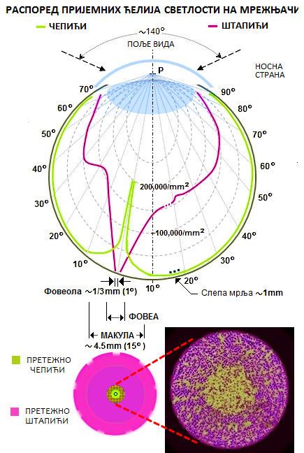 РАСПОРЕД ФОТОРЕЦЕПТОРА НА МРЕЖЊАЧИ